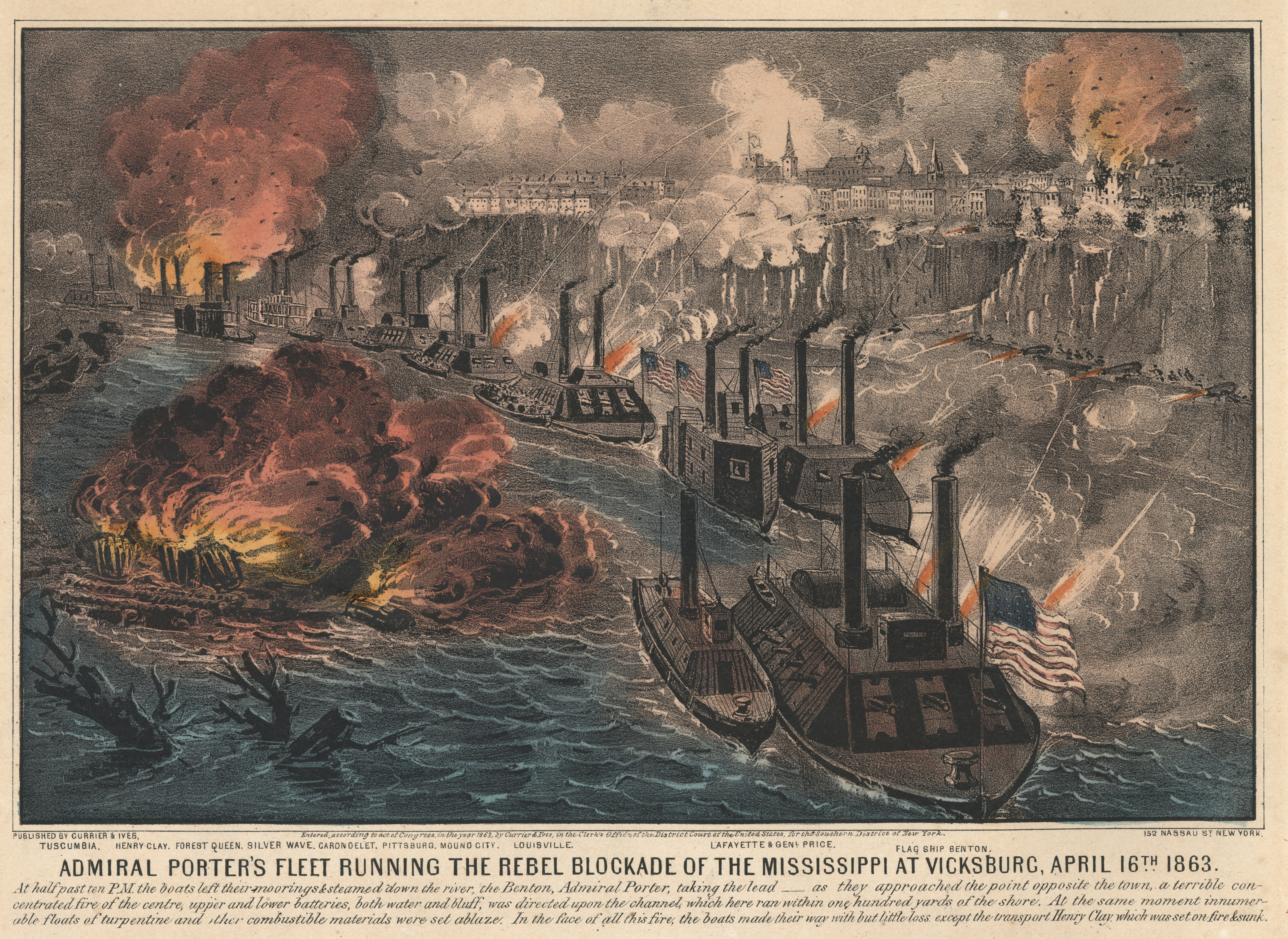 "Admiral Porter's Fleet Running the Rebel Blockade of the Mississippi at Vicksburg, April 16th 1863." Ships depicted are (from the front to the rear, all USS except as noted)): Benton (Flagship); Lafayette with General Price alongside; Louisville; Mound City; Pittsburgh; Carondelet; transports Silver Wave, Forest Queen & Henry Clay; and Tuscumbia. Text under the print's title reads: "At half past ten P.M. the boats left their moorings & steamed down the river, the Benton, Admiral Porter, taking the lead -- as they approached the point opposite the town, a terrible concentrated fire of the centre, upper and lower batteries, both water and bluff, was directed upon the channel, which here ran within one hundred yards of the shore. At the same moment innumerable floats of turpentine and other combustible materials were set ablaze. In the face of all this fire, the boats made their way with but little loss except the transport Henry Clay which was set on fire & sunk."